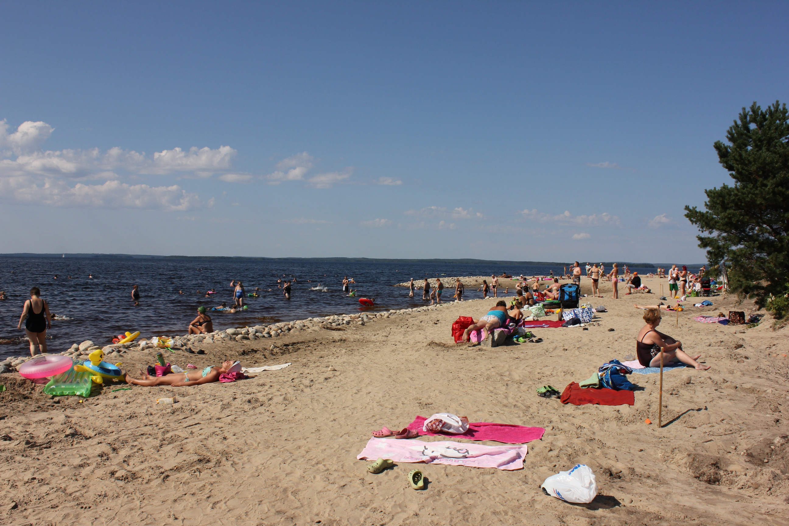 People summerbathing in Paltaniemi beach, Kajaani